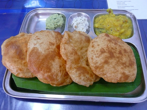 A puri or poori or boori (Urdu: بوری ;Hindi पूरी (pūrī)) (Tamil பூரி (pūri)) (Telugu పూరి (pūri)) is a South Asian unleavened bread prepared in many of the countries in South Asia including India, Pakistan and Bangladesh.